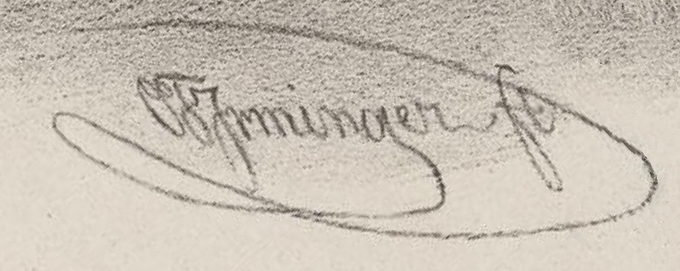 Signature of Carl Friedrich Irminger (1813–1863), Swiss draftsman, lithographer and engraver.